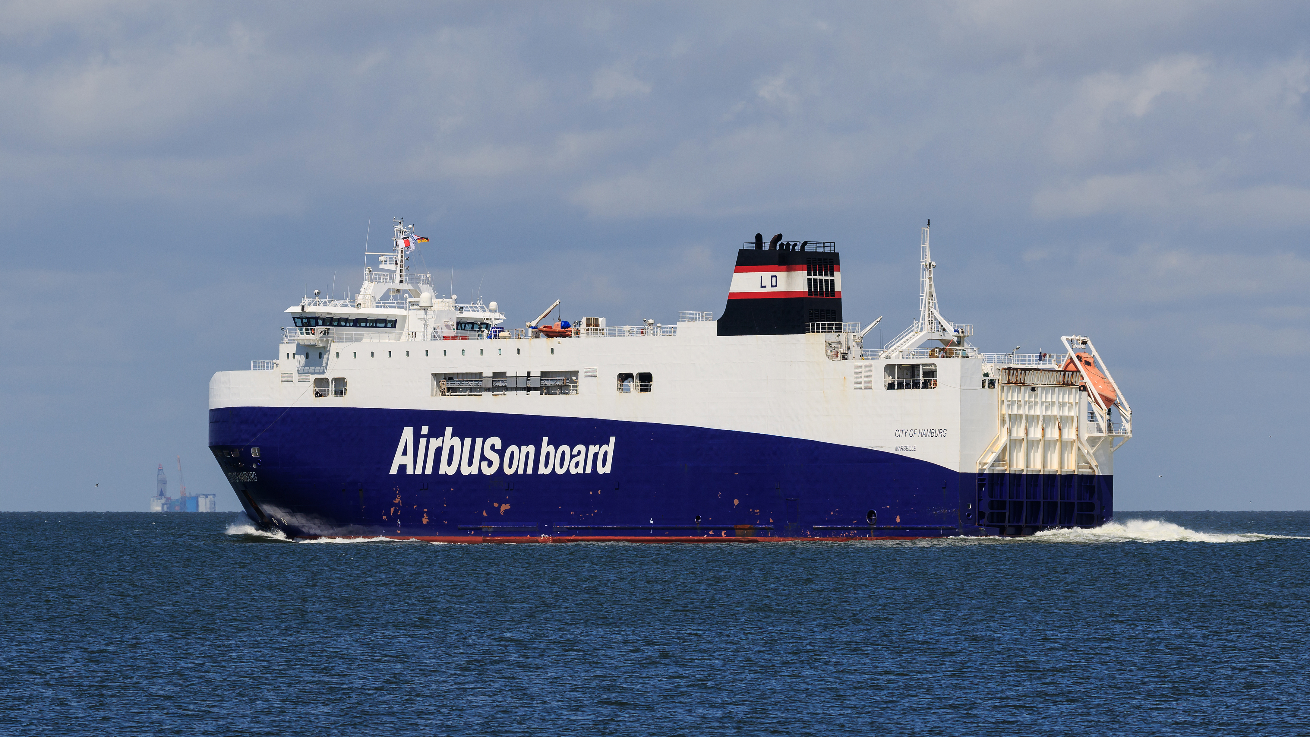 Ships in Outer Elbe / Wadden Sea at Cuxhaven, Germany